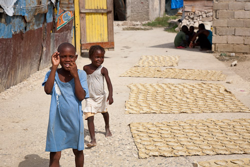 Children walk by ‘dirt cakes’ drying in the sun. The cakes, made of mud, salt and oil, make a cheap food to stave off hunger. At 2c each, they’re the only affordable food option for thousands of Cite Soleil residents.